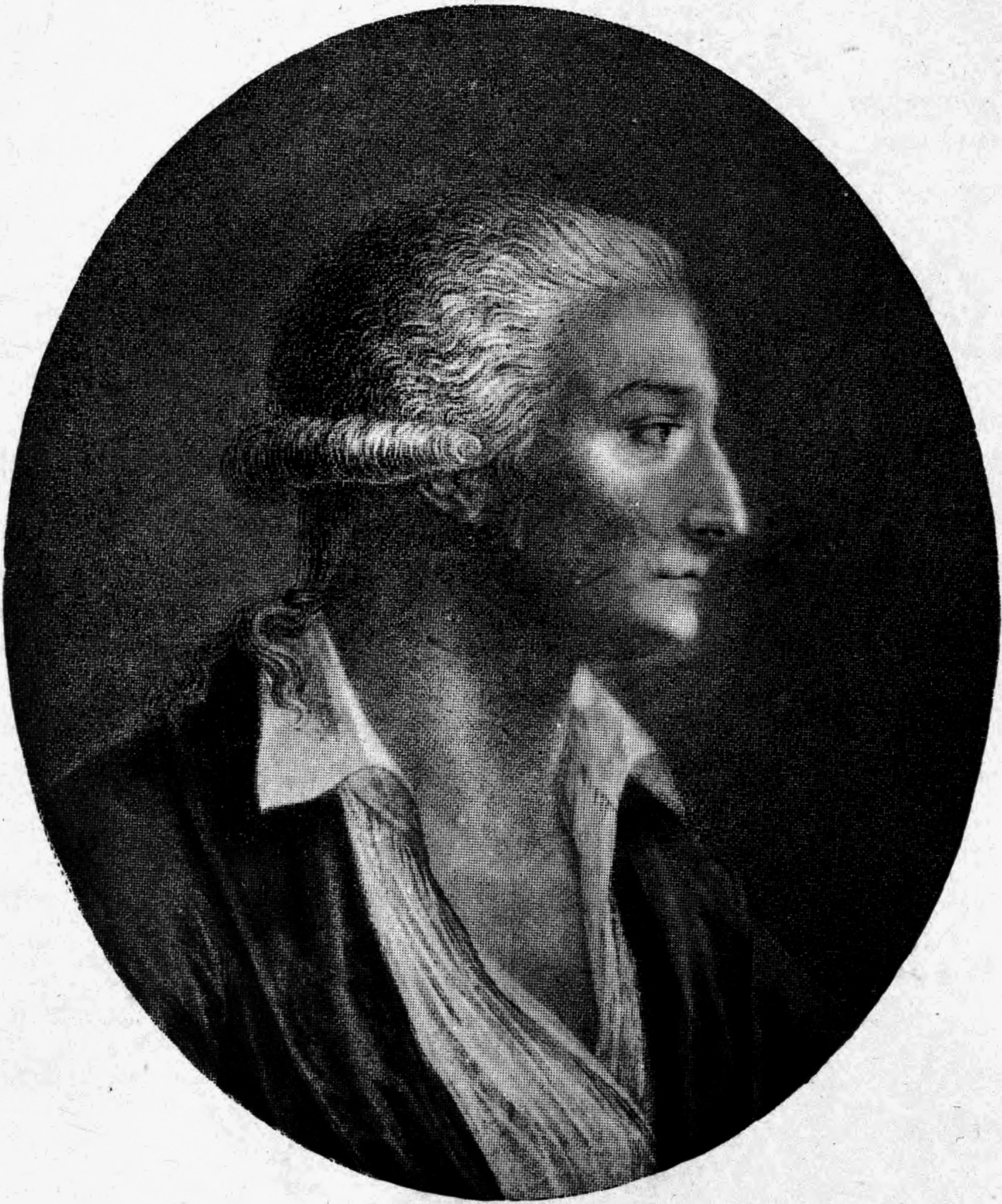 Portrait of Antoine Lavoisier, chemist, from the book Biographies of Scientific Men